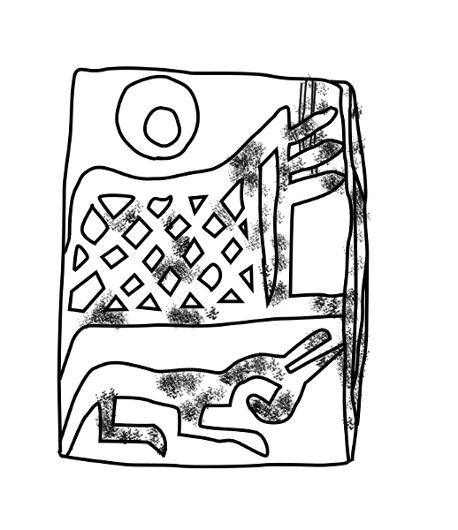 A label made of bone that was found in the tomb U-j at Umm el-Qaab (Abydos) by Günter Dreyer (1998) from the Naqada III period (about 3200 BC). The upper representation is a stylized (hieroglyphic) form of one of the earliest types of ancient Egyptian shrines, the "per-wer". The per-wer was the shrine of the Upper Egyptian goddess Nekhbet. Its structure was made of wooden stakes and matting. The building probably represented the same animal as below. Its identification is unclear. It could be an Elephant, Rhinoceros or a "Seth animal".